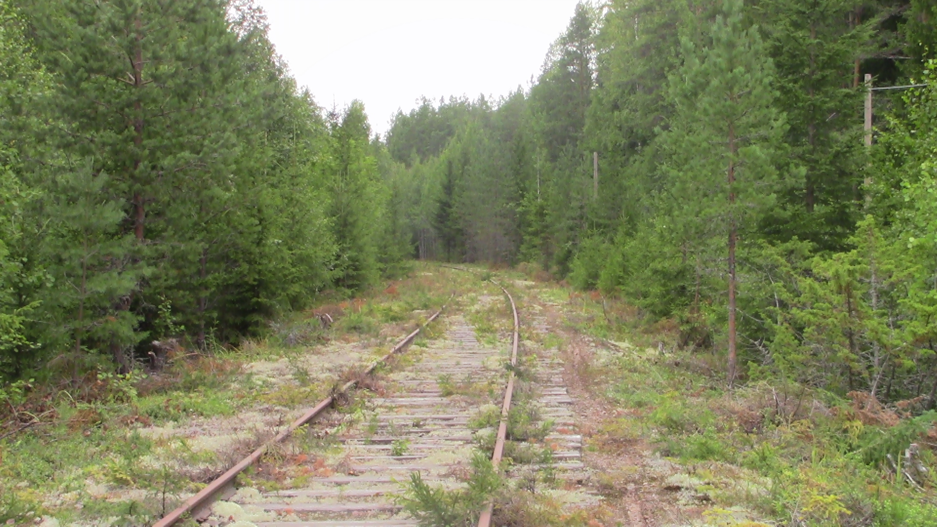 Old Aitoneva rail seen from ex-Niskoksentie railway crossing in Kihniö, Finland.